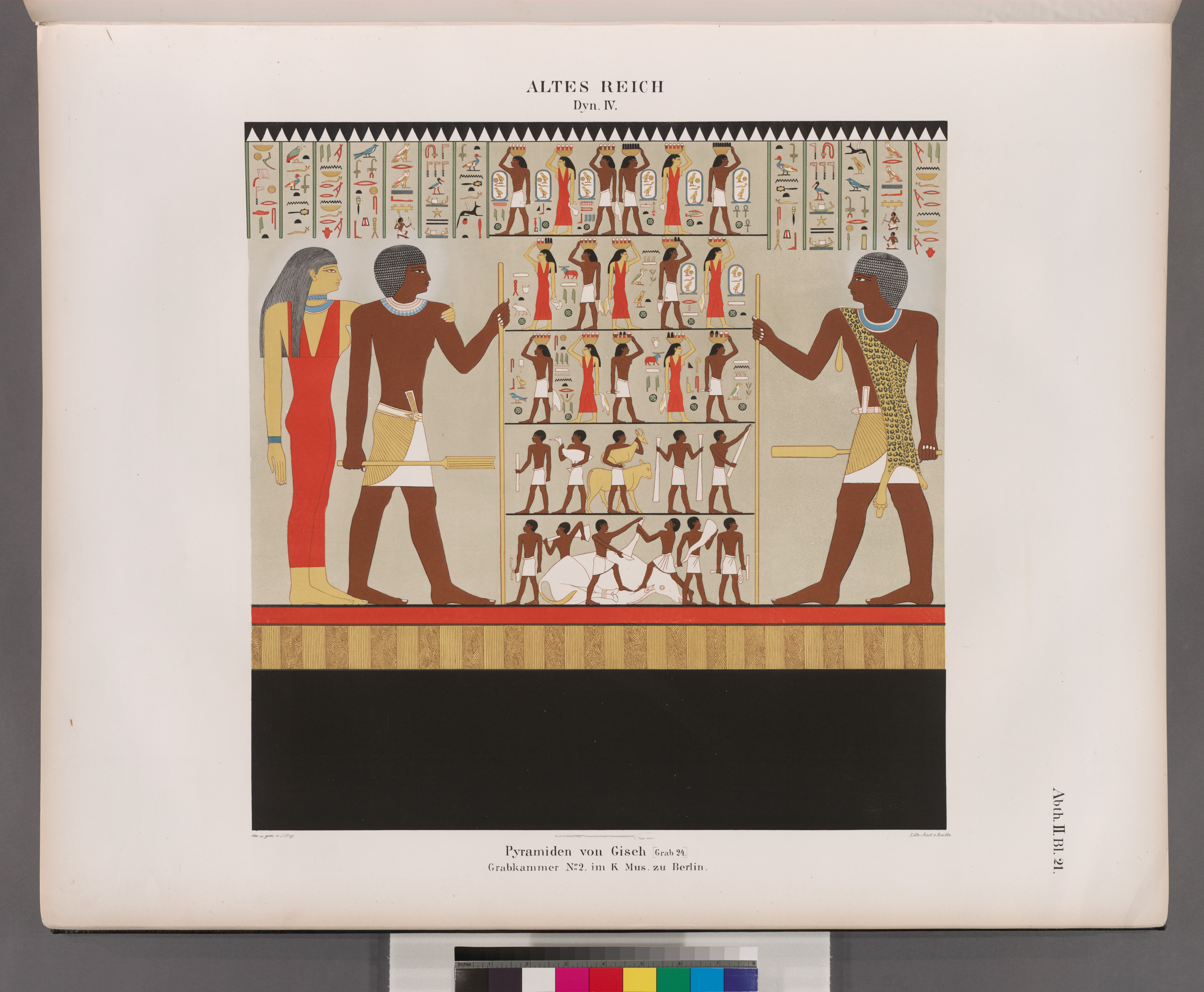 Dynastie IV. Pyramiden von Giseh [Jîzah], Grab 24. [ Grabkammer No. 2 im K. Museum zu Berlin.]